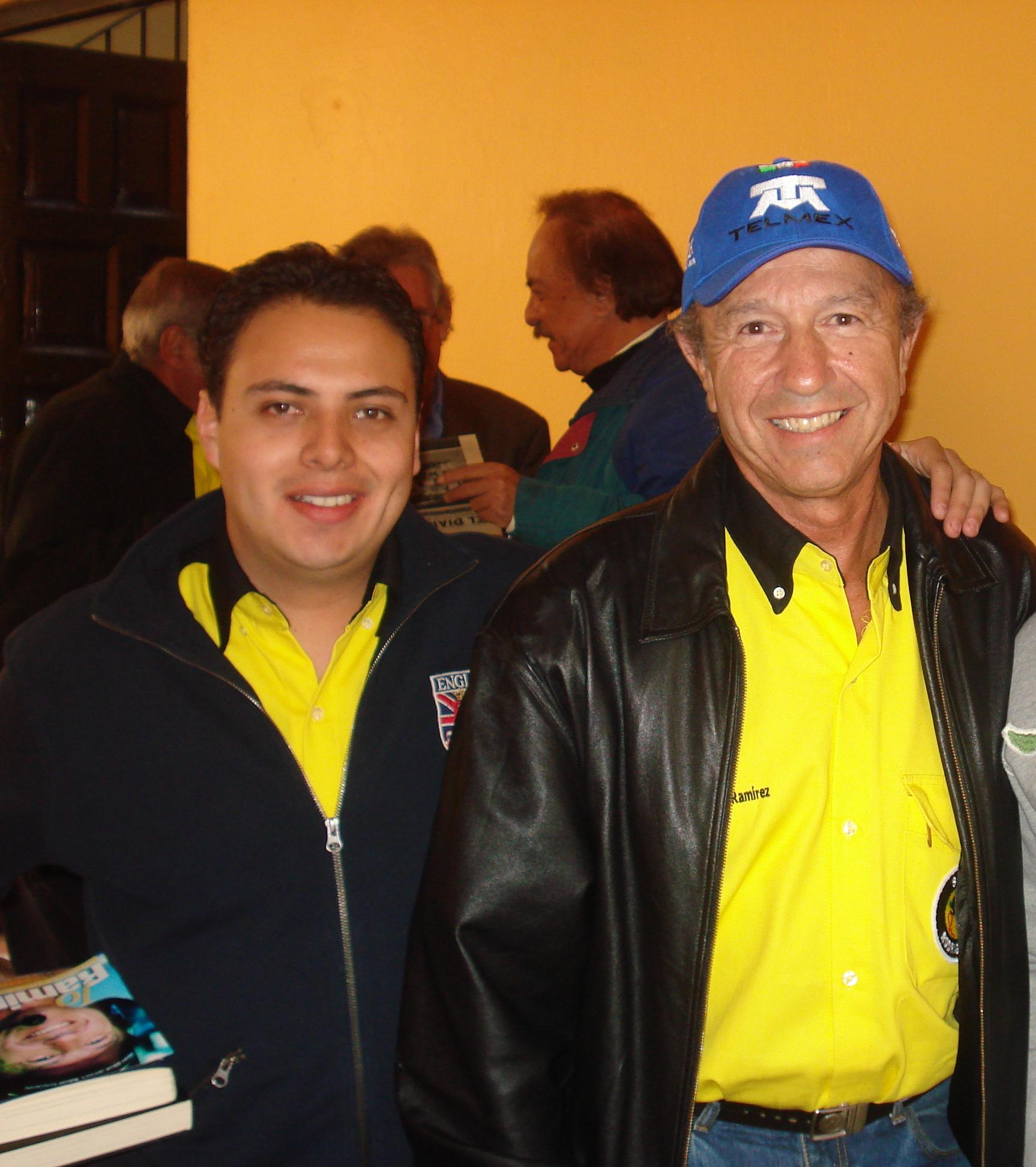 Jo Ramirez & Sergio Flores